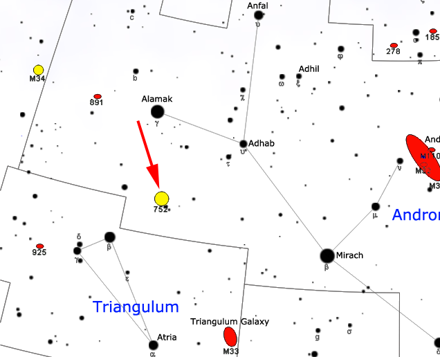 Map of NGC 752